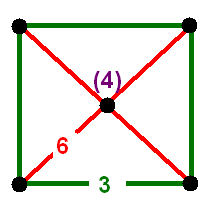 truncated_16-cell vertex figure